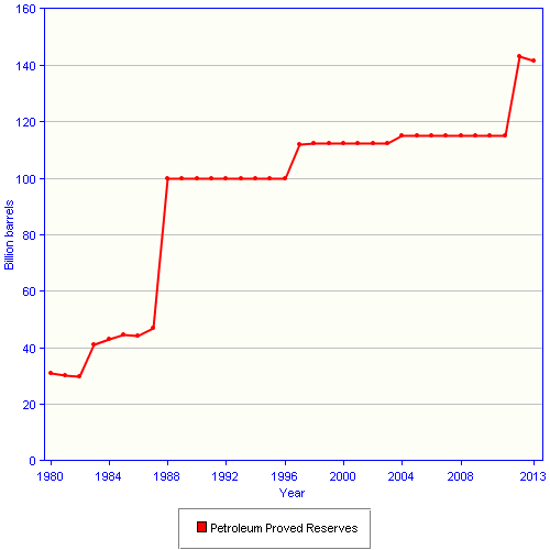 Proved oil reserves in Iraq